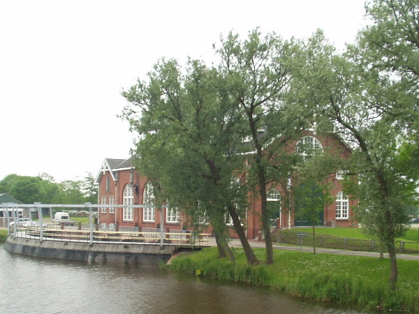 Pumping station De Waterwolf.